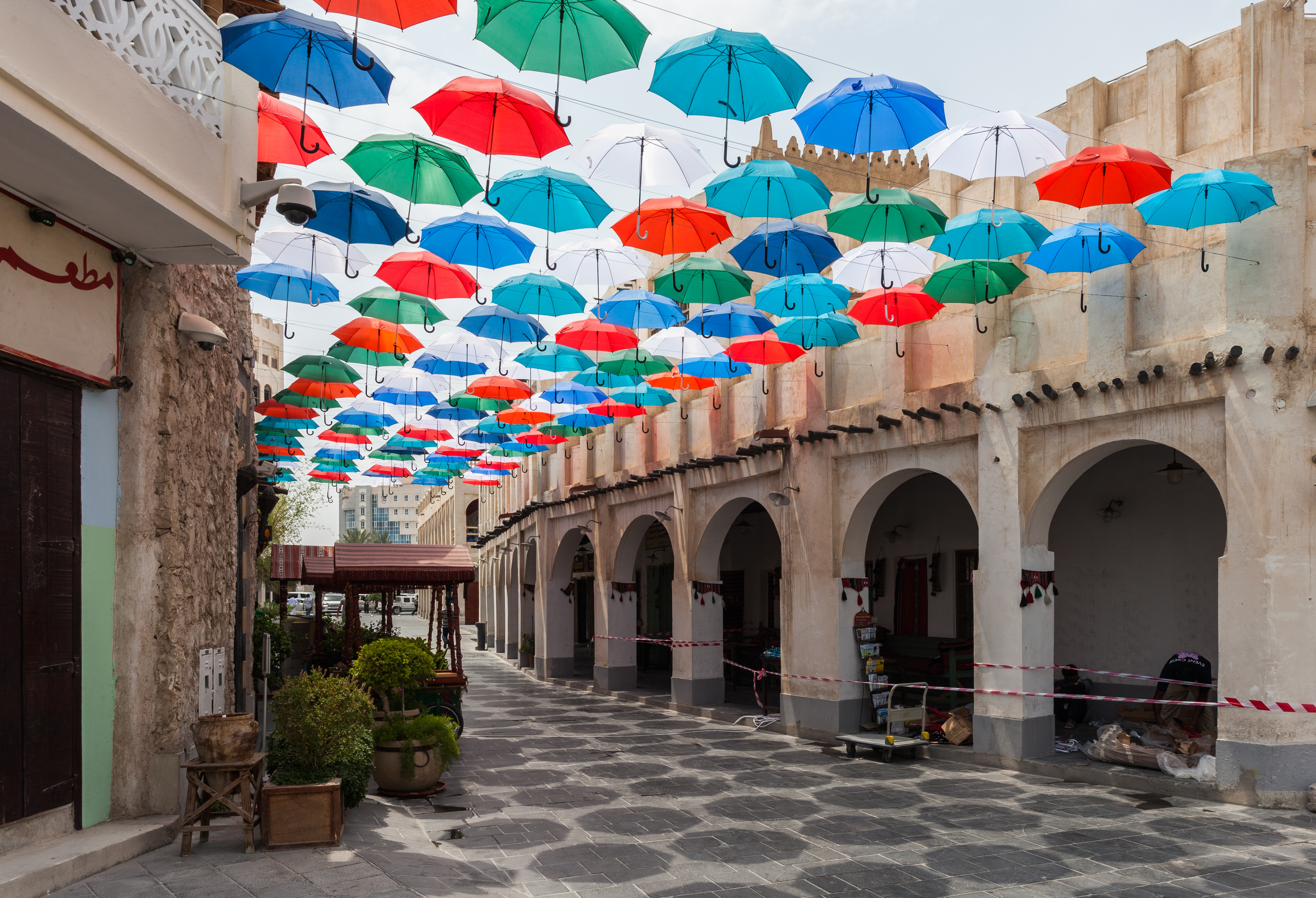 Souq Waqif, Doha, Qatar